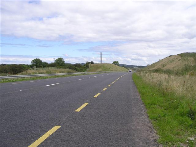 N15, Ballyshannon Heading towards Ballyshannon centre and Donegal town.